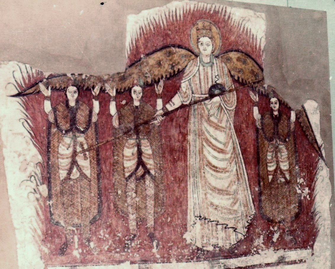 A wall painting from a Nubian church on display at the Khartoum Museum. It depicts the story from Daniel 3 of the three youths thrown into the furnace.